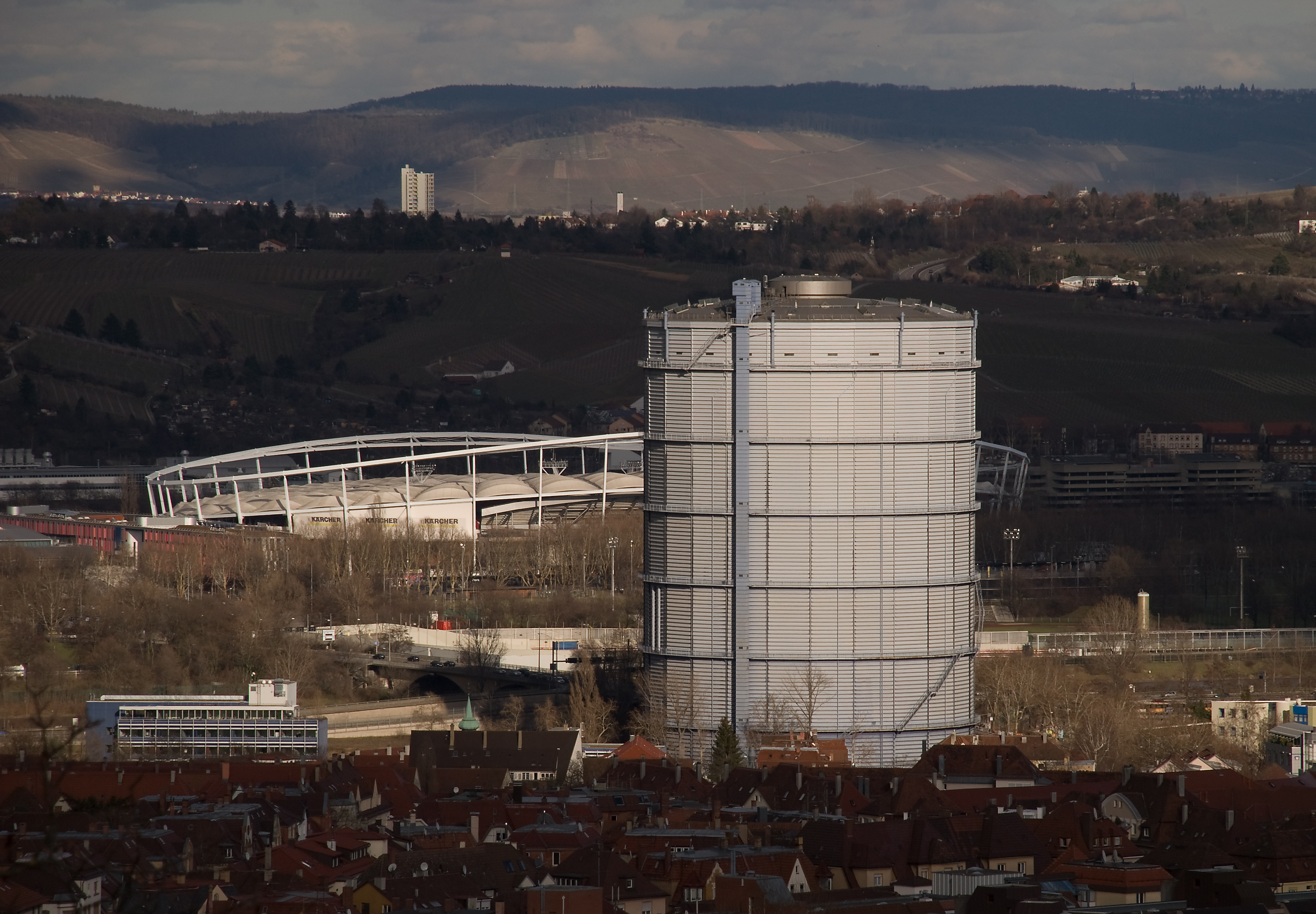 Gasometer in Stuttgart-Gaisburg, Germany